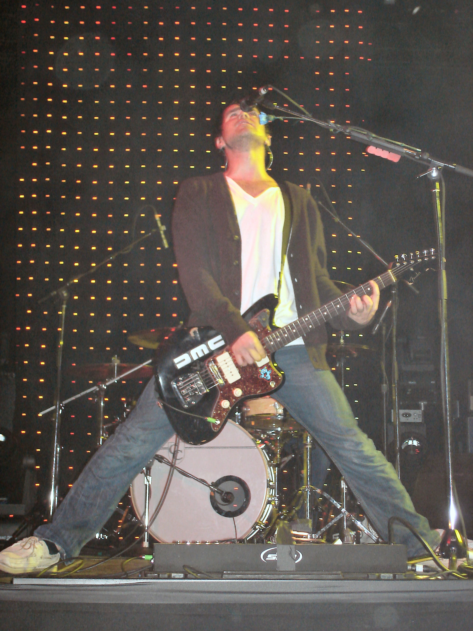 This was my third time seeing brand new, they opened for Dashboard in Toronto Dec 06.. Can't waite to see them again in Nov